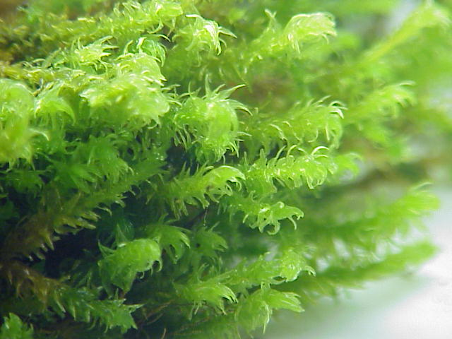 Species: Anomodon viticulosus Family: ' Image No. 1